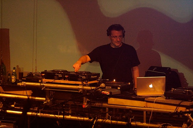 John Aquaviva @ The Dom